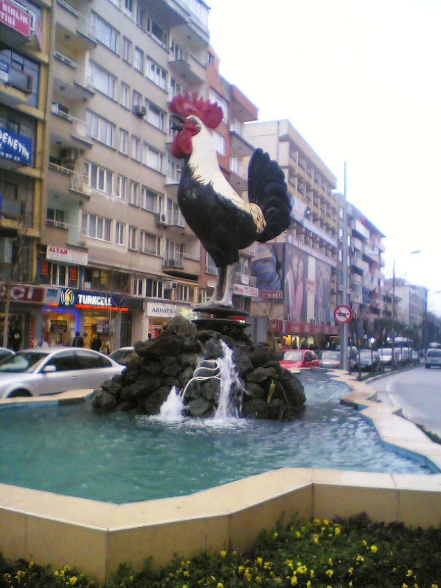 The statue of Horoz in Denizli